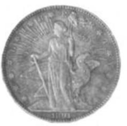 Obverse of pattern coin created by Charles E. Barber, a federal employee in the Bureau of the Mint, part of the Department of the Treasury, for the half dollar. It was not adopted, another design by Barber was.